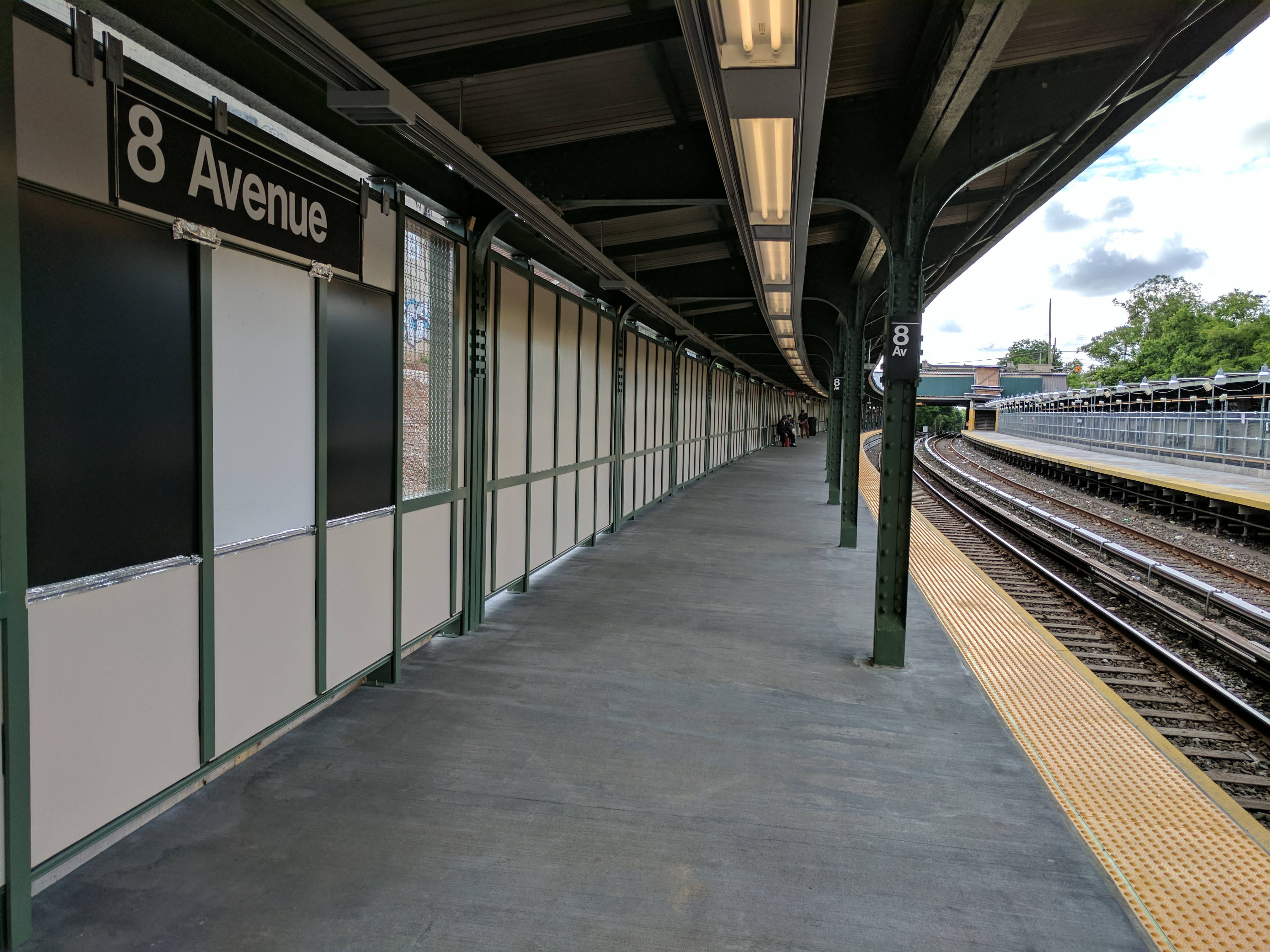 Rehabbed Manhattan bound platform on 8th Avenue Sea Beach line.